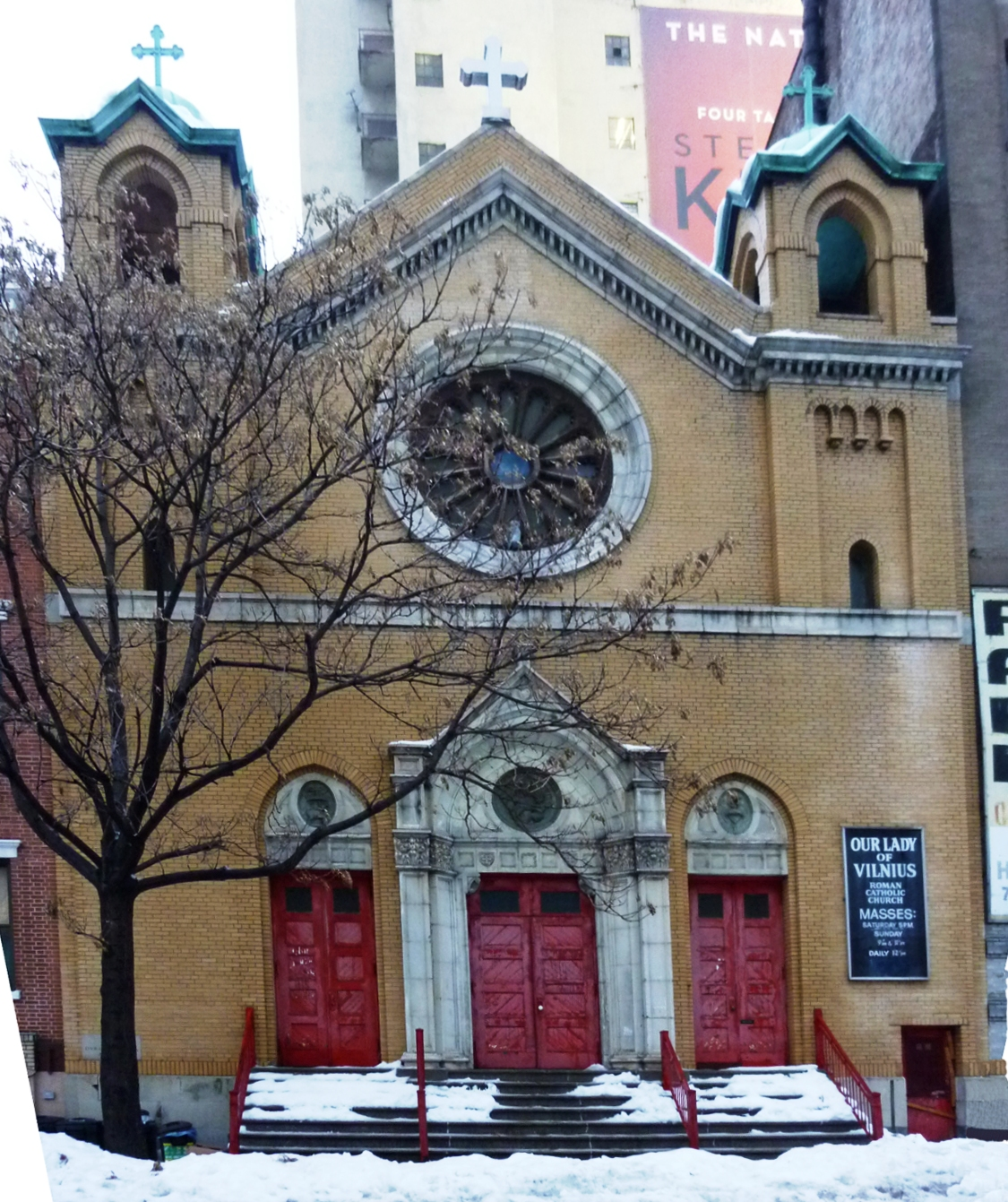 Our Lady of Vilnius Church is a closed Roman Catholic parish church that has been threatened with demolition and been the subject of a landmarks preservation debate. The church is located at 568-570 Broome Street in the Hudson Square neighborhood of Manhattan, New York City, east of the entrance to the Holland Tunnel, but predating it. The yellow brick Romanesque Revival-style church was built for $25,000 in 1910 and was designed by theatre architect Harry G. Wiseman.